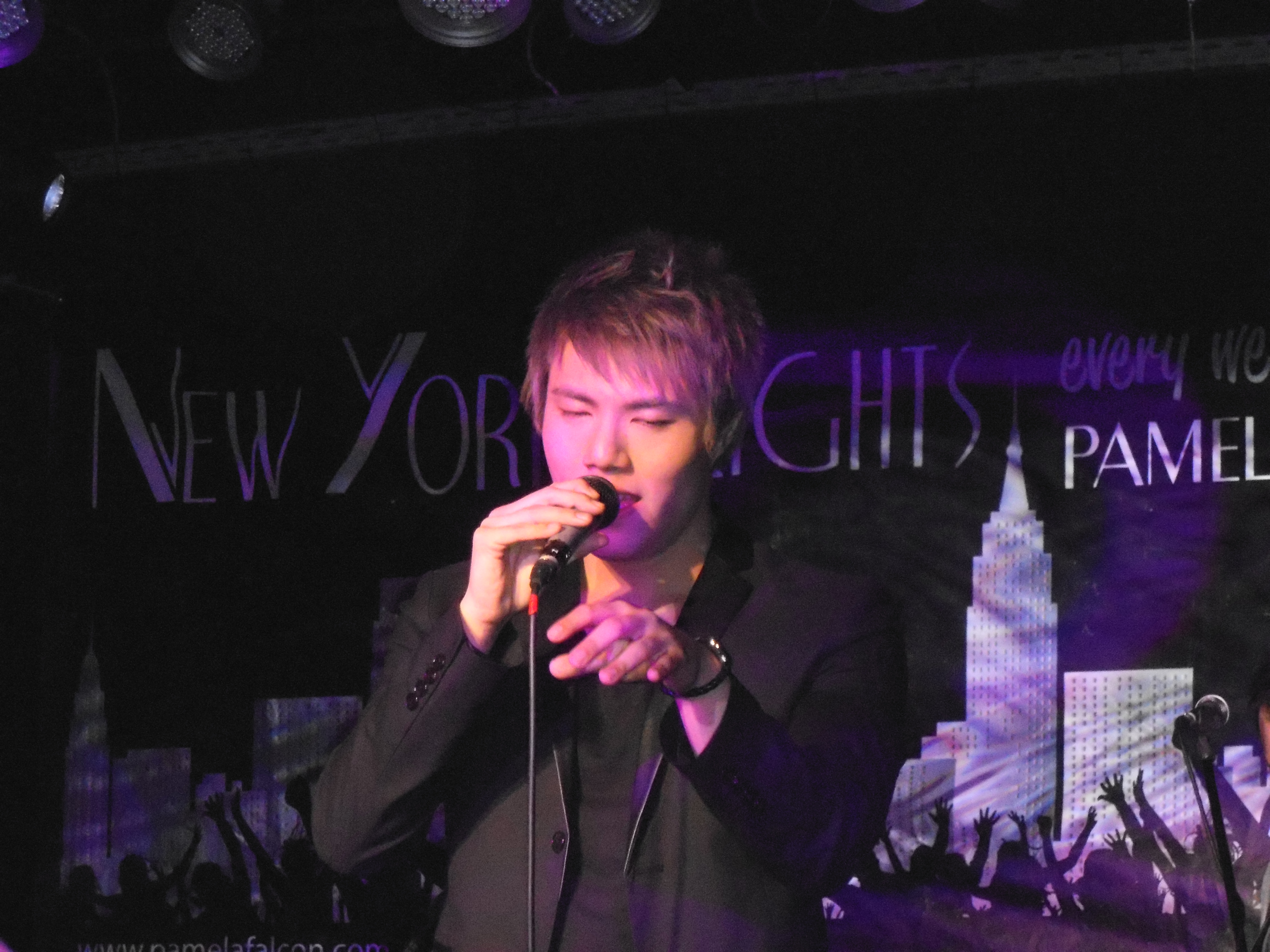 Der Gewinner von "Das Supertalent", der Bochumer Sänger Jay Oh, bei Pamela Falcons NEW YORK NIGHTS am 23. Dezember 2015 im Riff in Bochum.